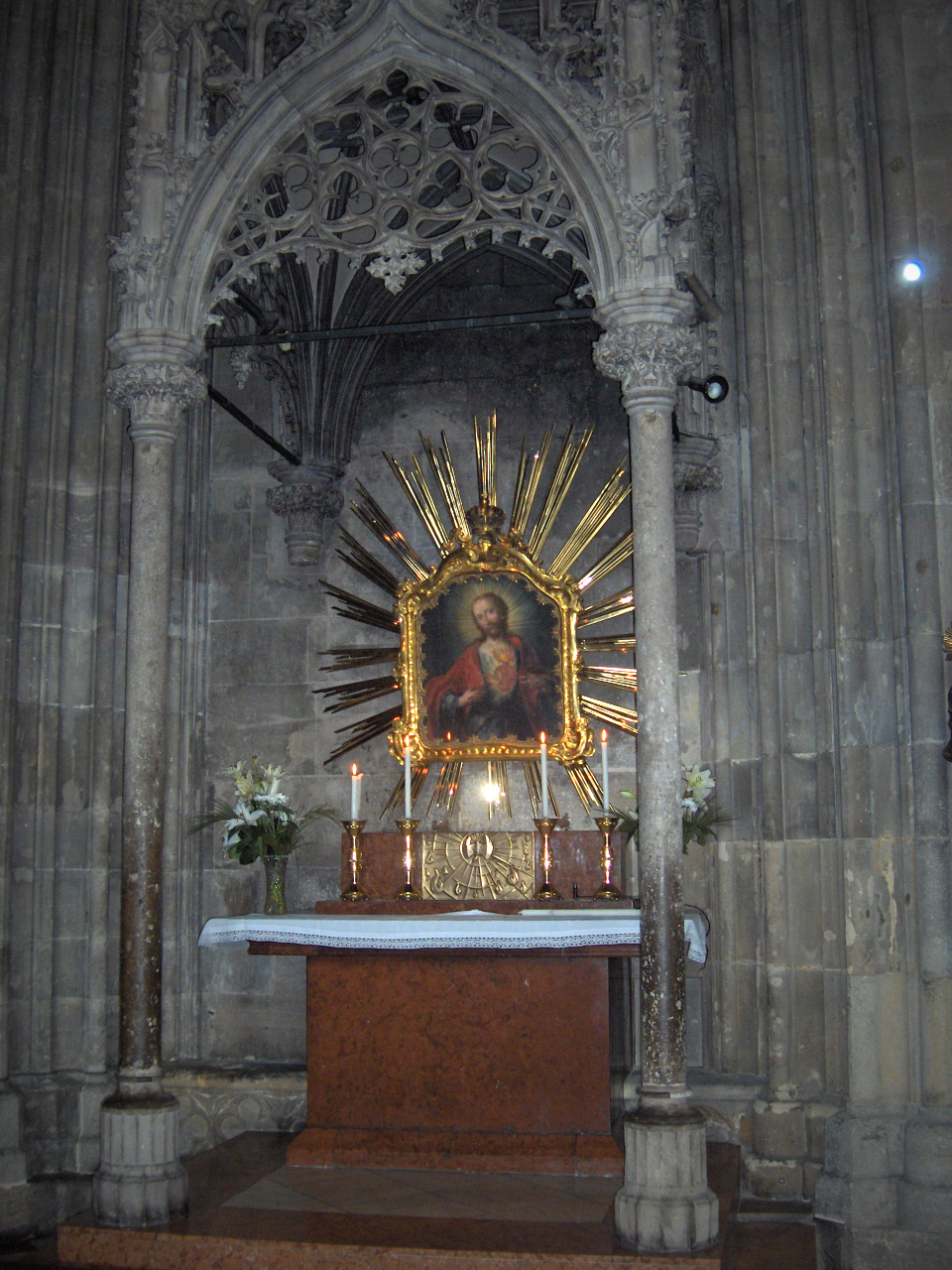 Side chapel in the Stephansdom in Vienna, Austria